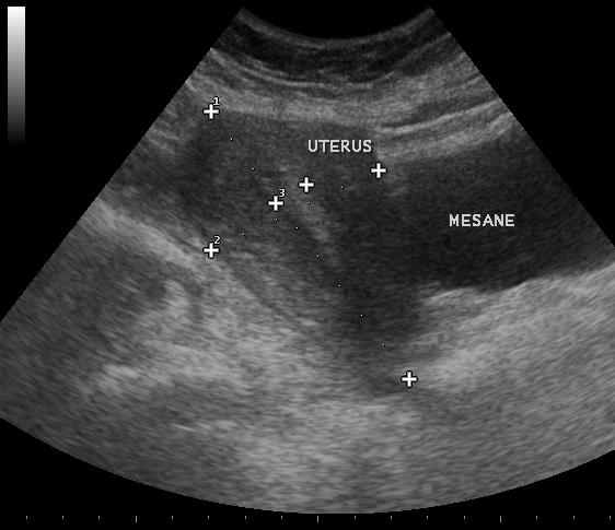 Medical ultrasound image. Provided as-is. Please feel free to categorise, add description, crop.